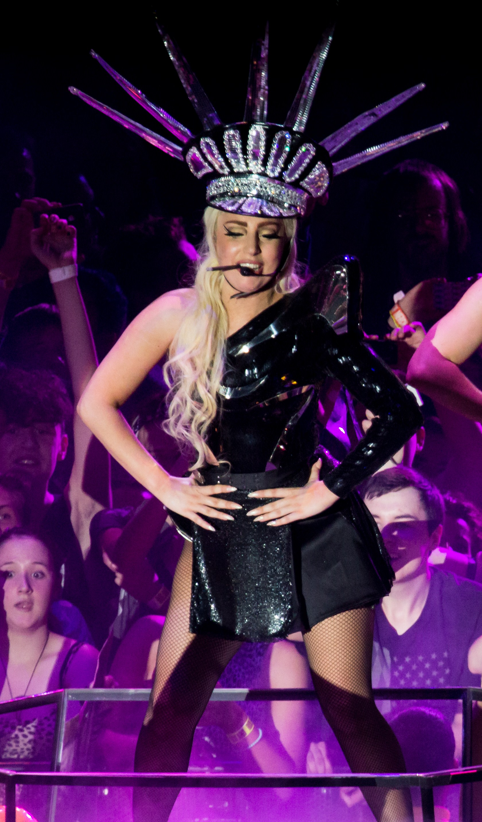 Lady Gaga performing "LoveGame" on The Born This Way Ball Tour in Manchester, UK.